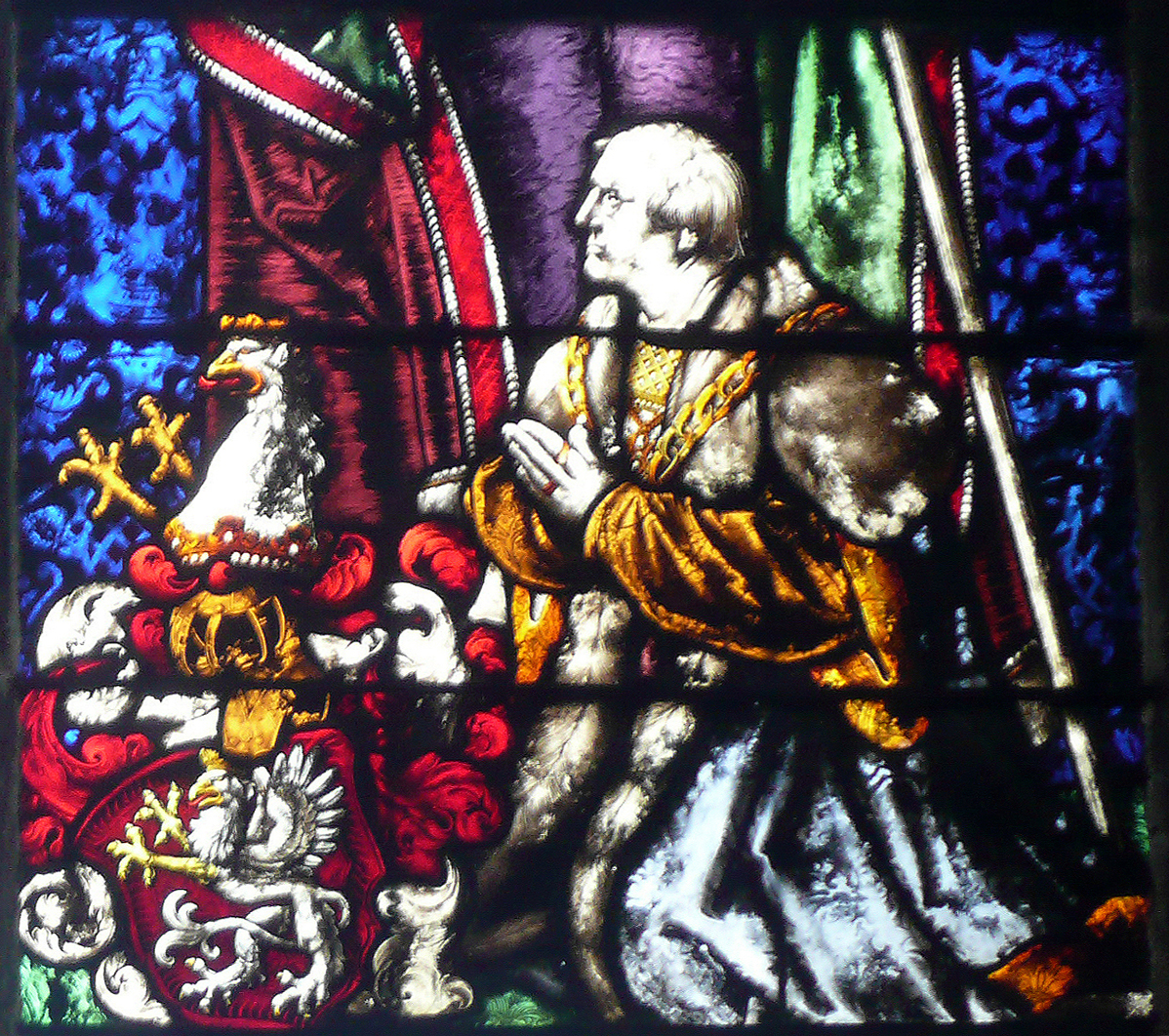 Chancellor Konrad Stürzel von Buchheim (~1435-1509). Detail of the left stained glass window in the Stürzel chapel in the Freiburg Minster. Copy by Fritz Geiges from about 1920 according to the original which was finished in 1528 by the Ropstein manufactory according to outlines by Hans Baldung and which is today in the Augustinermuseum in Freiburg. Window inscription: CONRAT STÜRZEL VON BUOCHEIM ERBSCHENK DER LANTGROFSCHAFT ELLSES [Elsaß] RITTER DOCTOR R. K. M. [Roman Emperor] HOFKANTZLER UND SIN GEMACHEL FRAUW URSULA GEBORNE LOUCHERIN DENEN GOTT GENOD. ANNO XV UND IM FINFTEN. [1505]